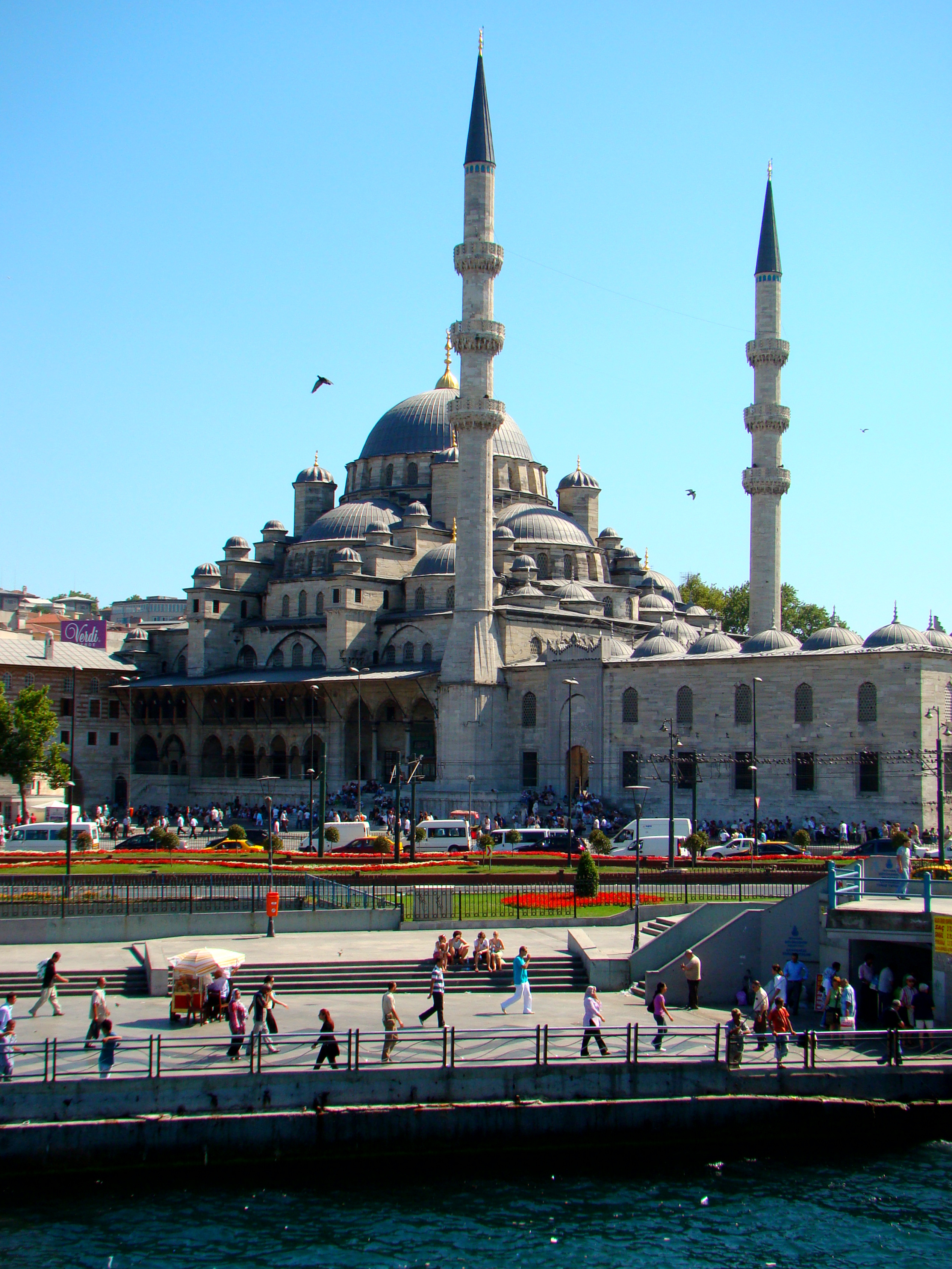 Yeni Camii, "New Mosque", located south of the Galata Bridge in the Eminönü district in Istanbul, Turkey